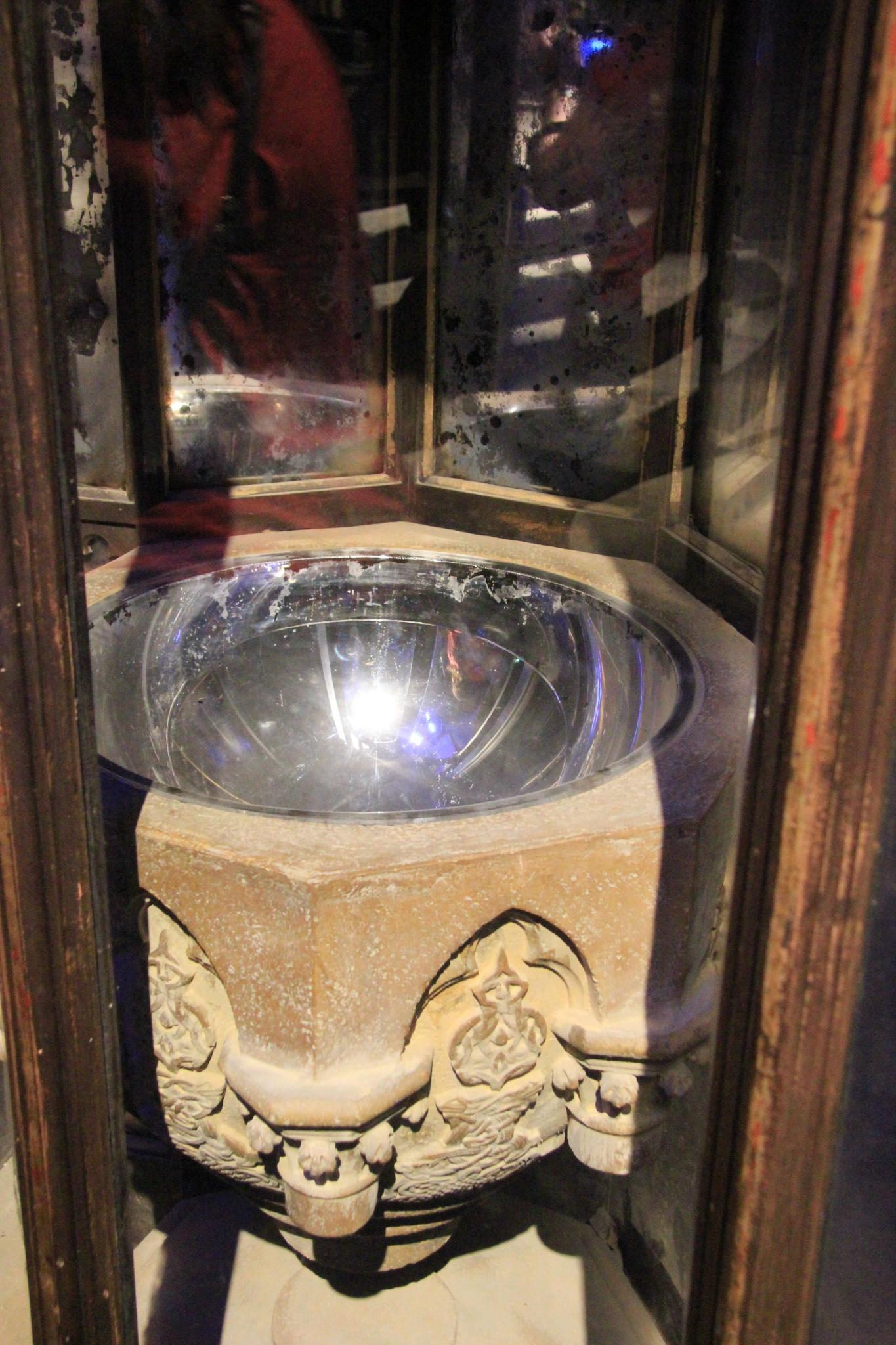 Warner Bros. Studio Tour London: The Making of Harry Potter.